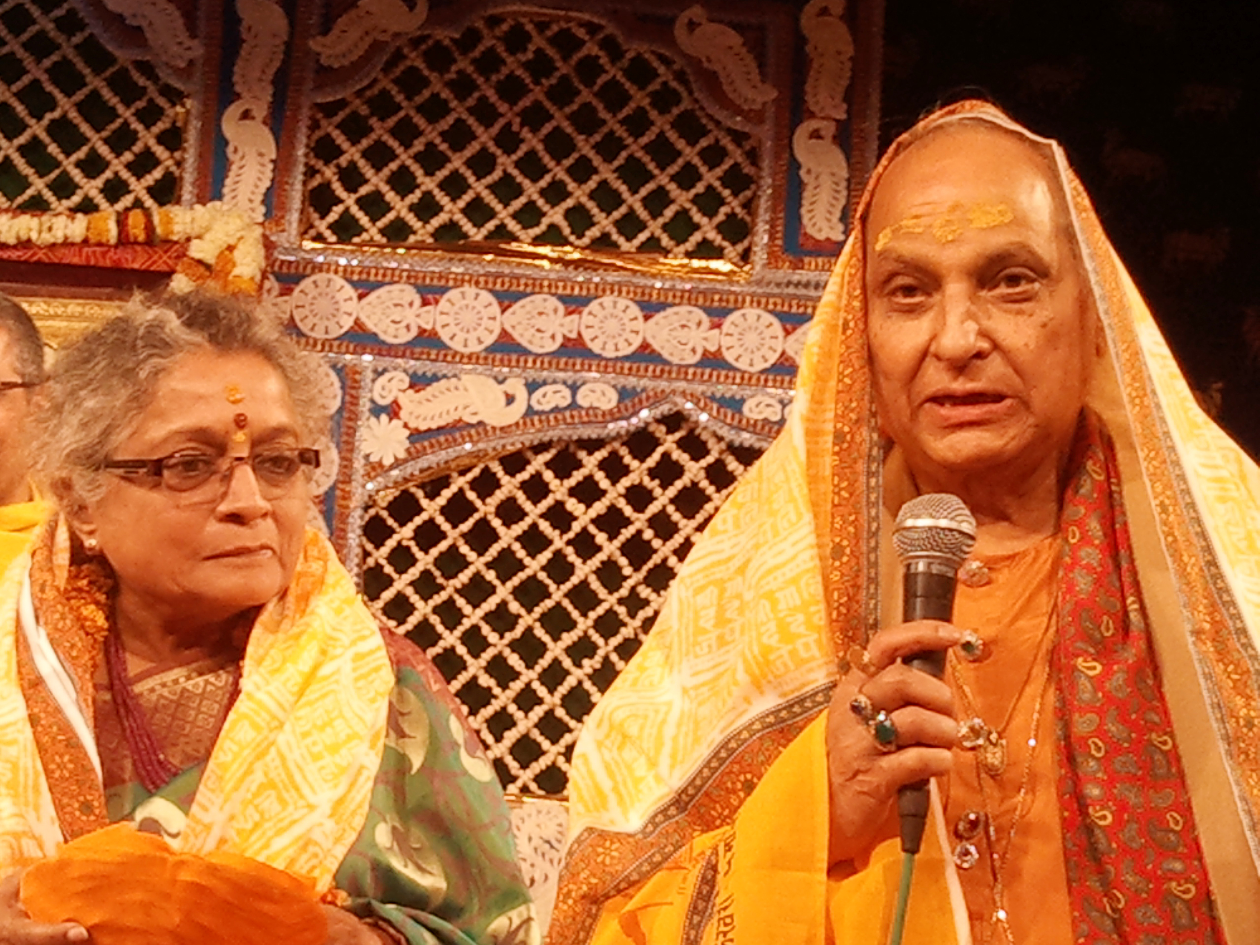 This is photo of Pandit Jasraj with his wife Madhura on the stage of Satsang Bhawan in Govind Dev Ji Temple, Jaipur